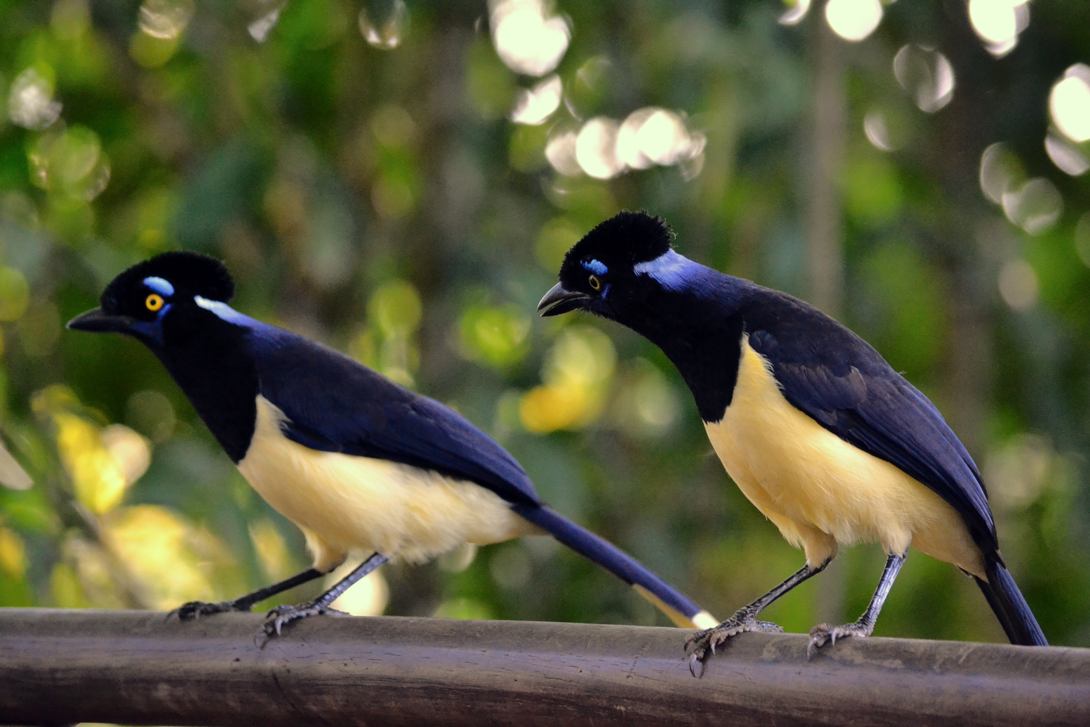 Gralha Picaça-Foz do Iguaçu Paraná